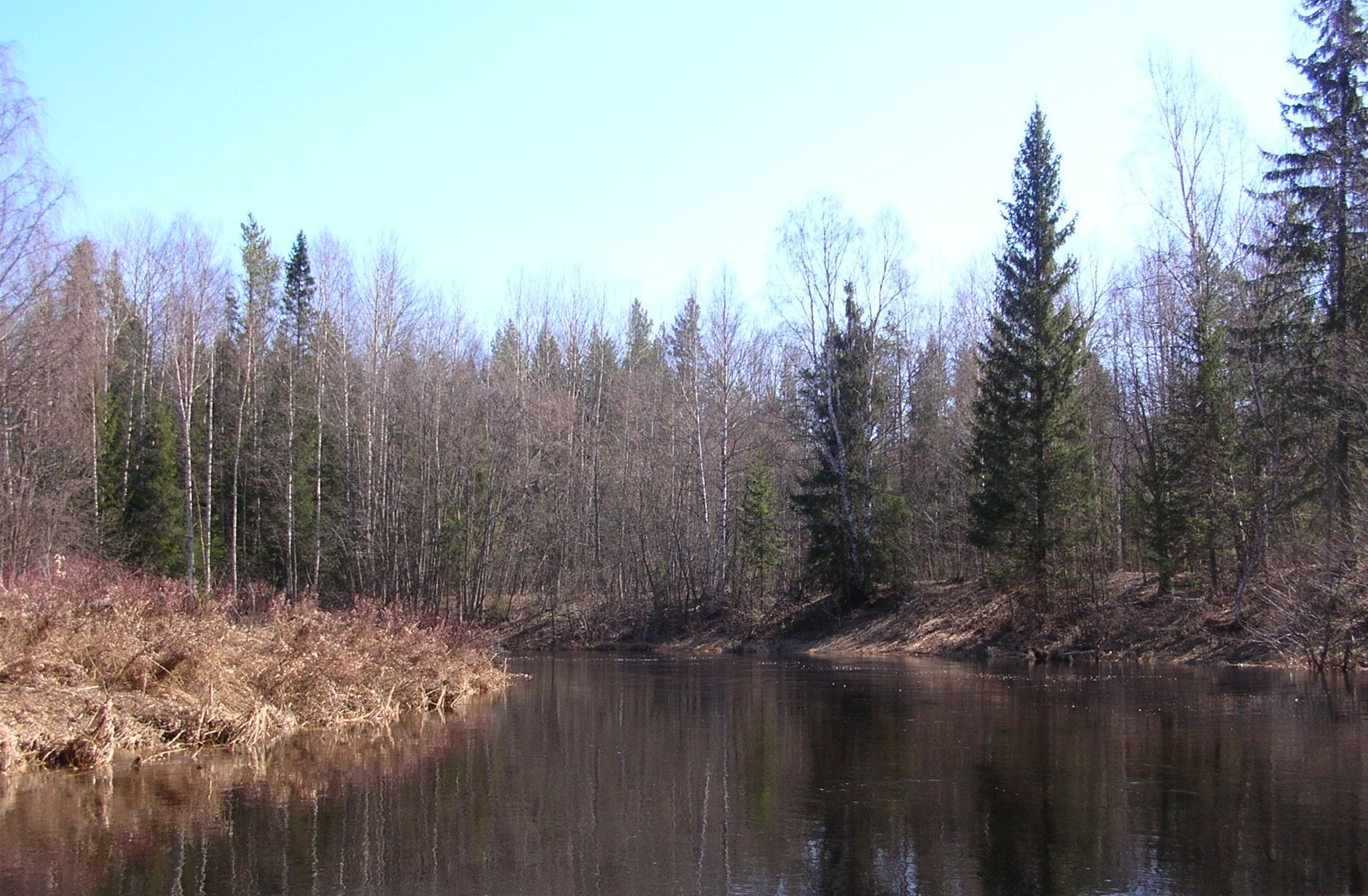 Mouth of Voya River, view from Ihalitsa River. Spring of 2006.